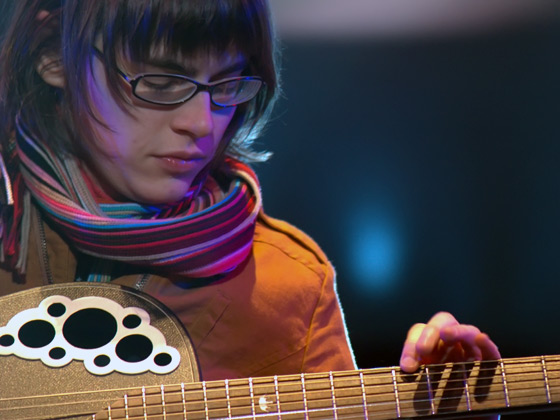 Kaki King The 1st Adelaide International Guitar Festival November 2007